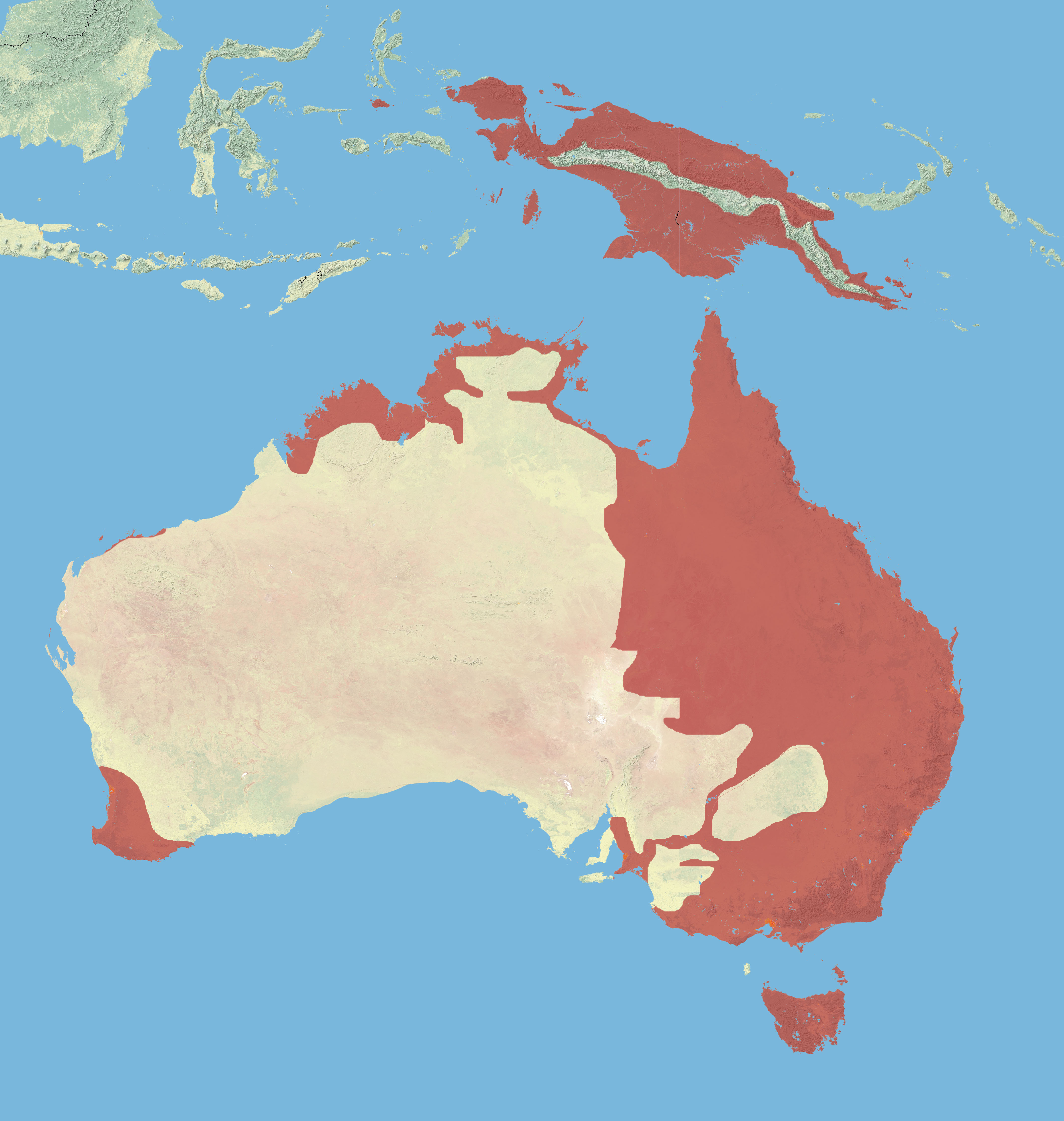 The Distribution of the Water Rat According to the IUCN